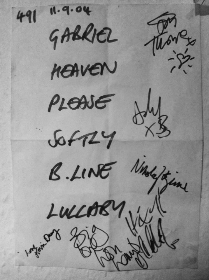 Set list for a secret concert by Lamb at the 491 Gallery, Leytonstone, London, on the 11th of September 2004. The set list is signed by the band members.